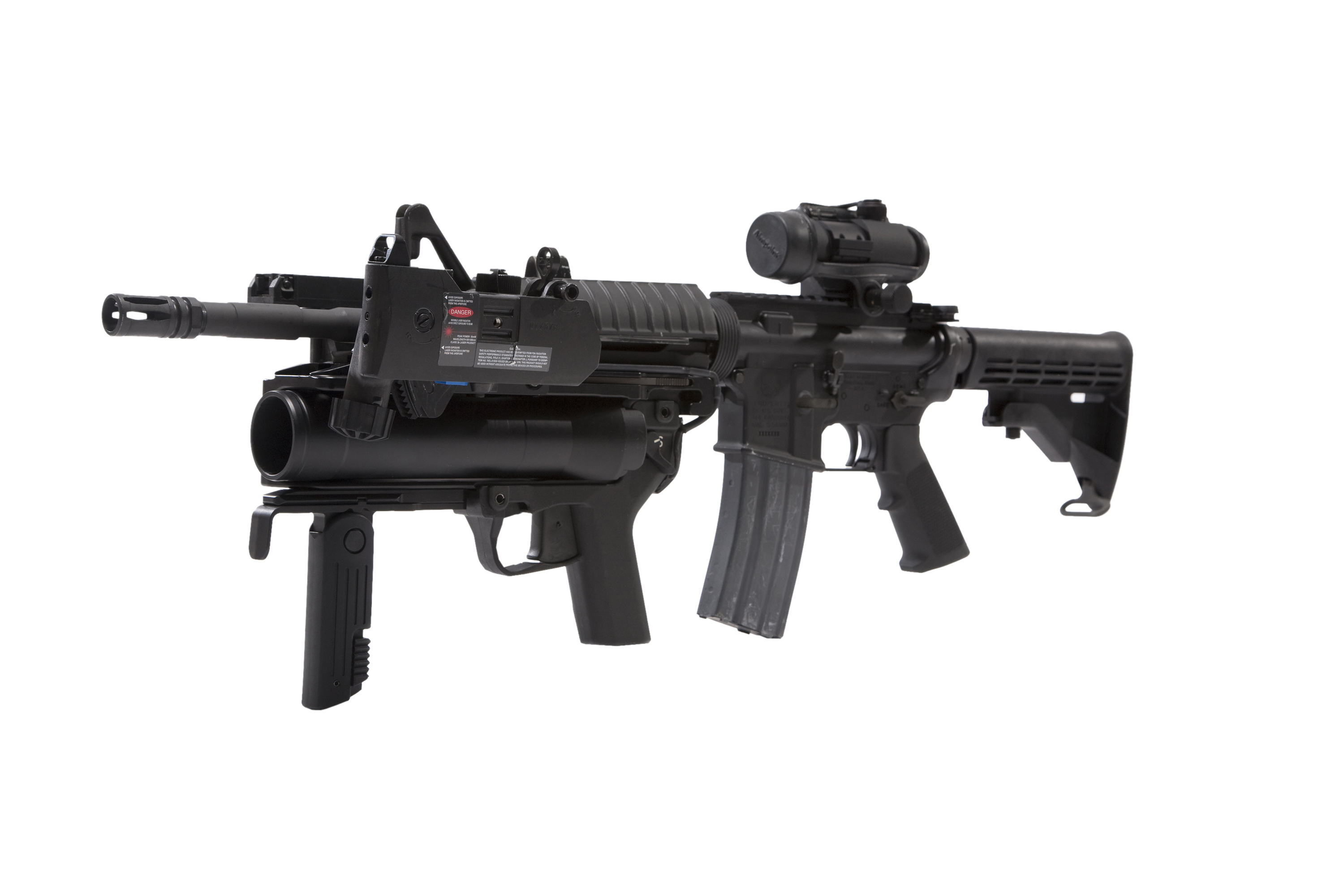 The M320, a 40mm grenade launcher, is the replacement to all M203 series of grenade launchers on M16 Rifles and M4 Carbines. An interoperable system, it attaches under the barrel of the rifle or carbine and can convert to a stand-alone weapon.